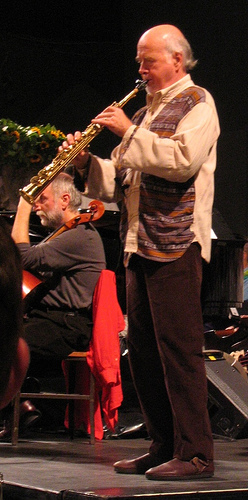 Paul Winter playing Saxophon (New York City)